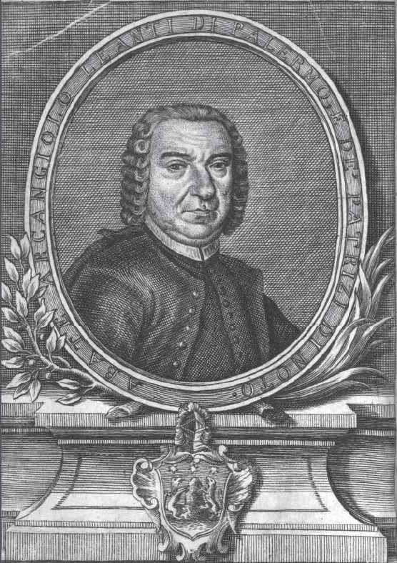 Arcangelo Leanti, Sicilian academic